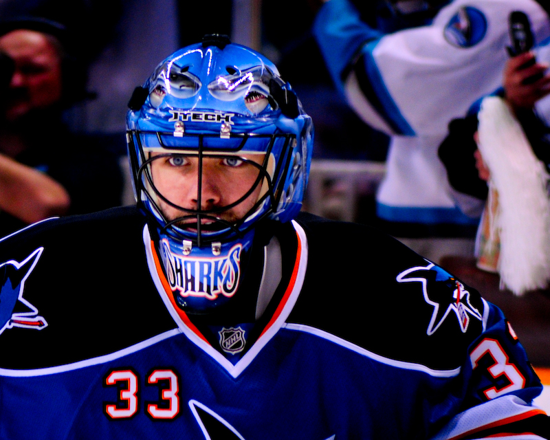 Brian Boucher